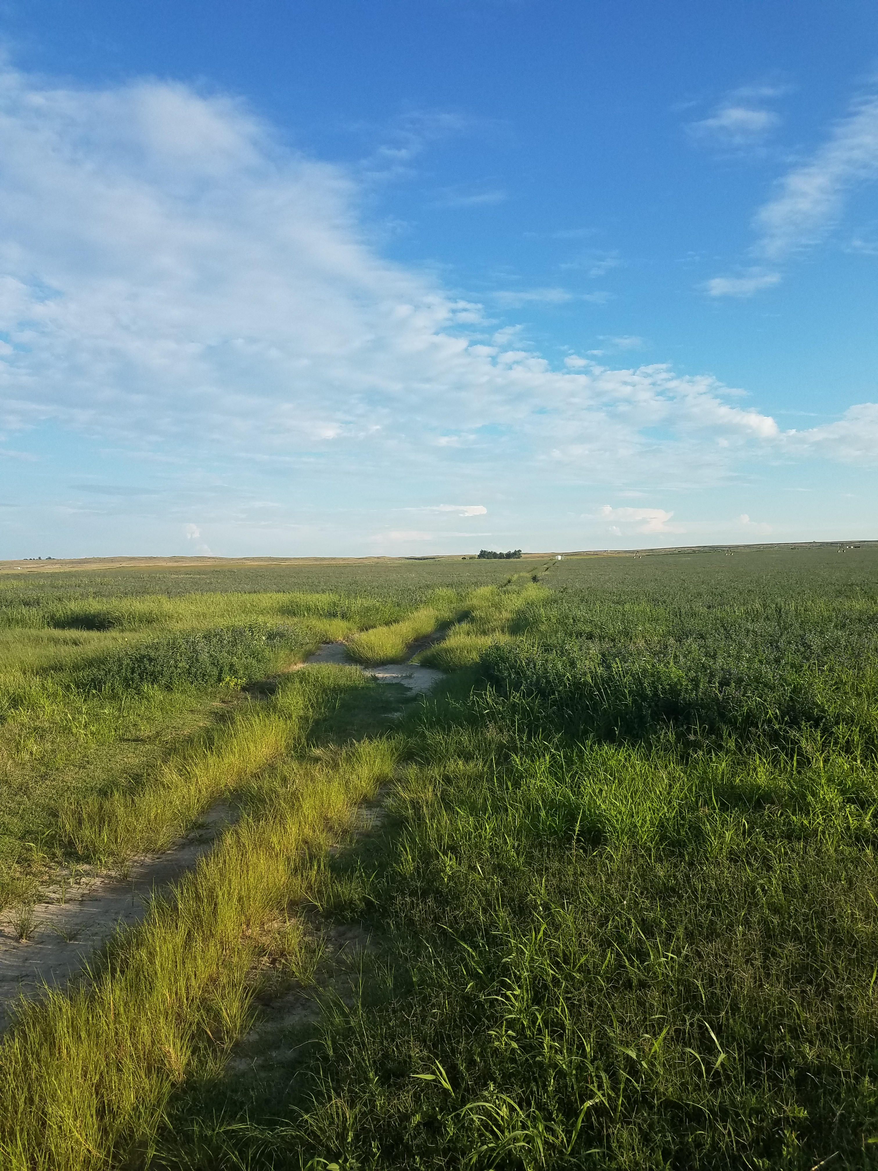 I took this photo where Cline would have set at, as you can see it is nothing but farm land now.